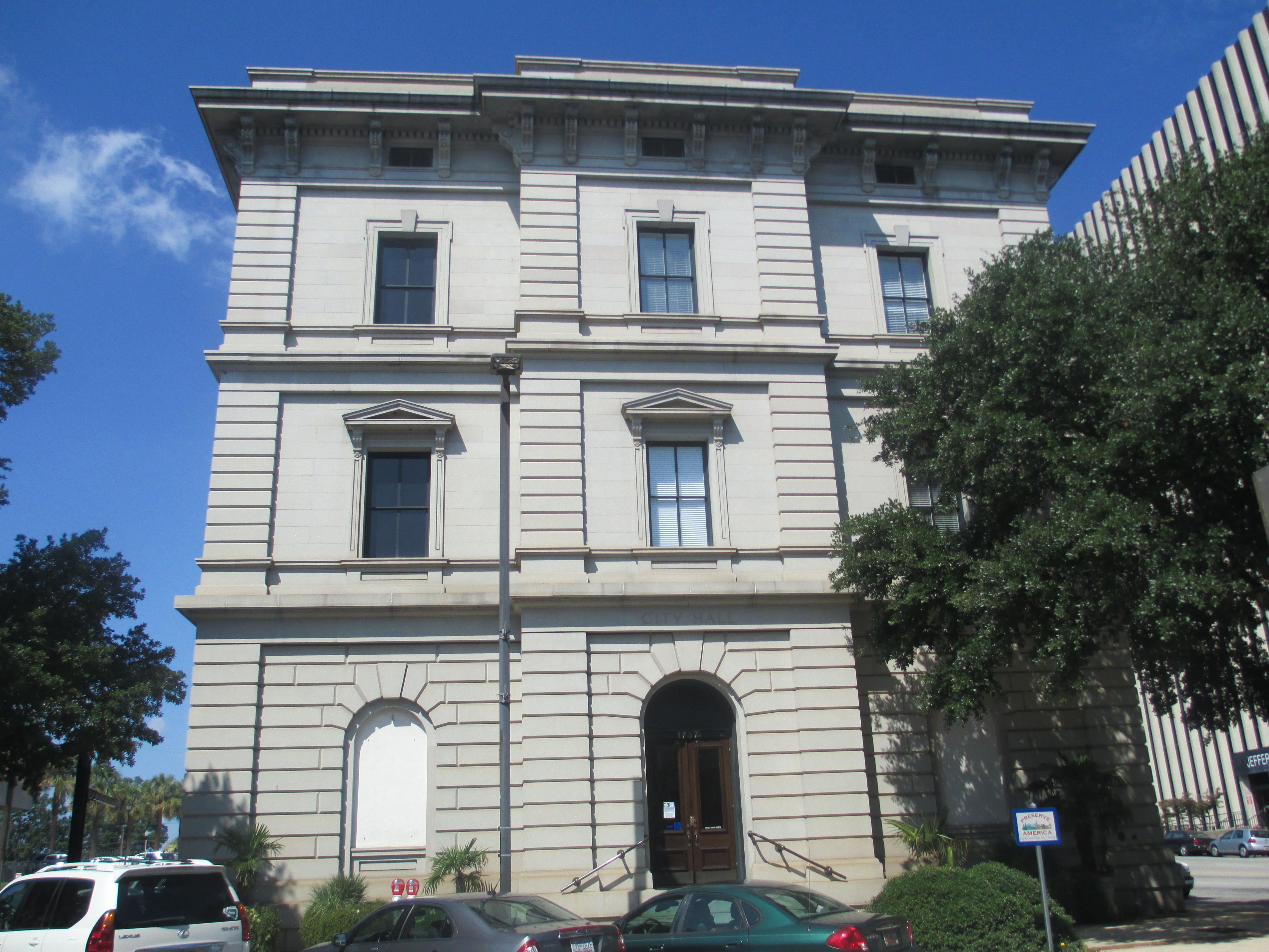 I took photo of City Hall in Columbia, SC, with Canon camera.